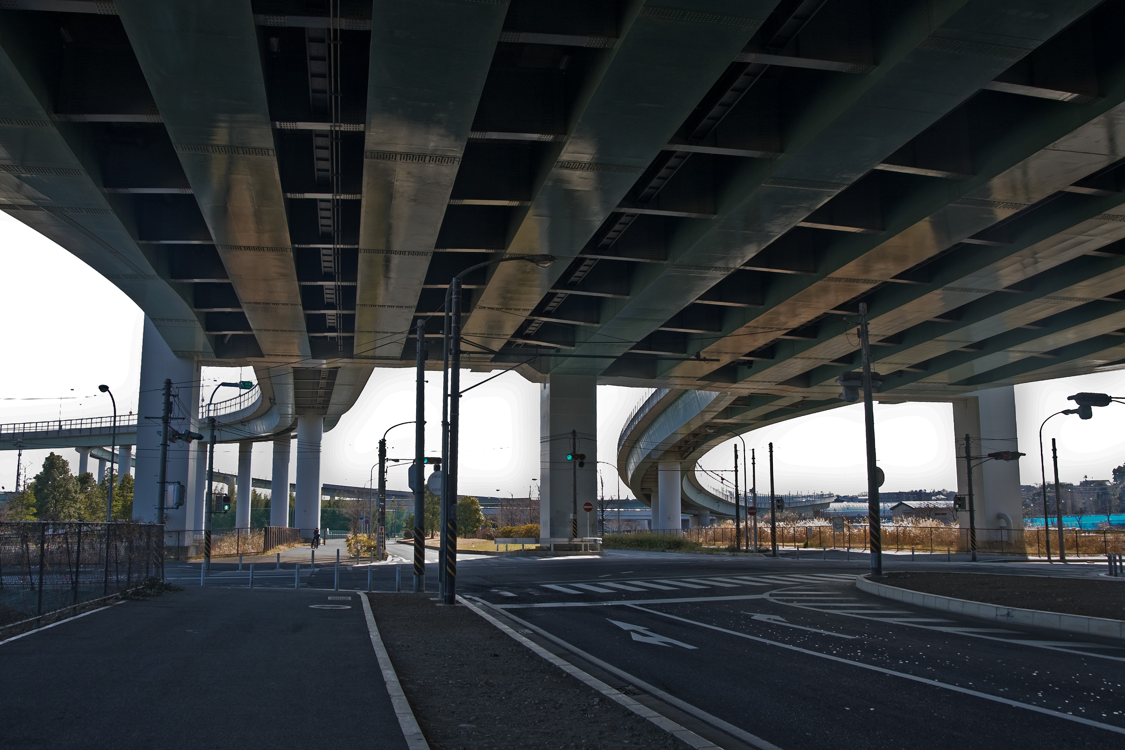 Yokohama-Aoba Interchange on Tōmei Expressway, in Aoba-ku, Yokohama City, Kanagawa Prefecture, Japan